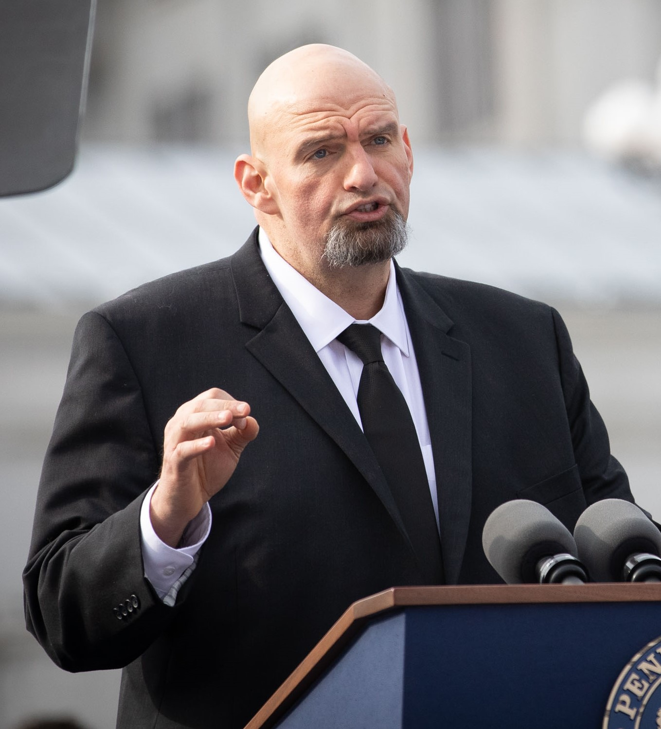 January 15, 2019 Harrisburg, PA